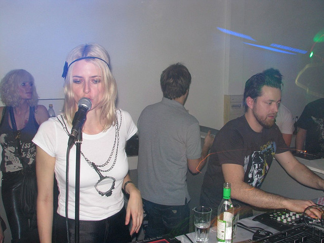 Dapayk & Padberg